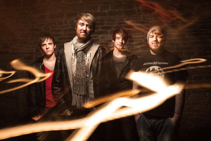 Promo photo of MakethisRelate.